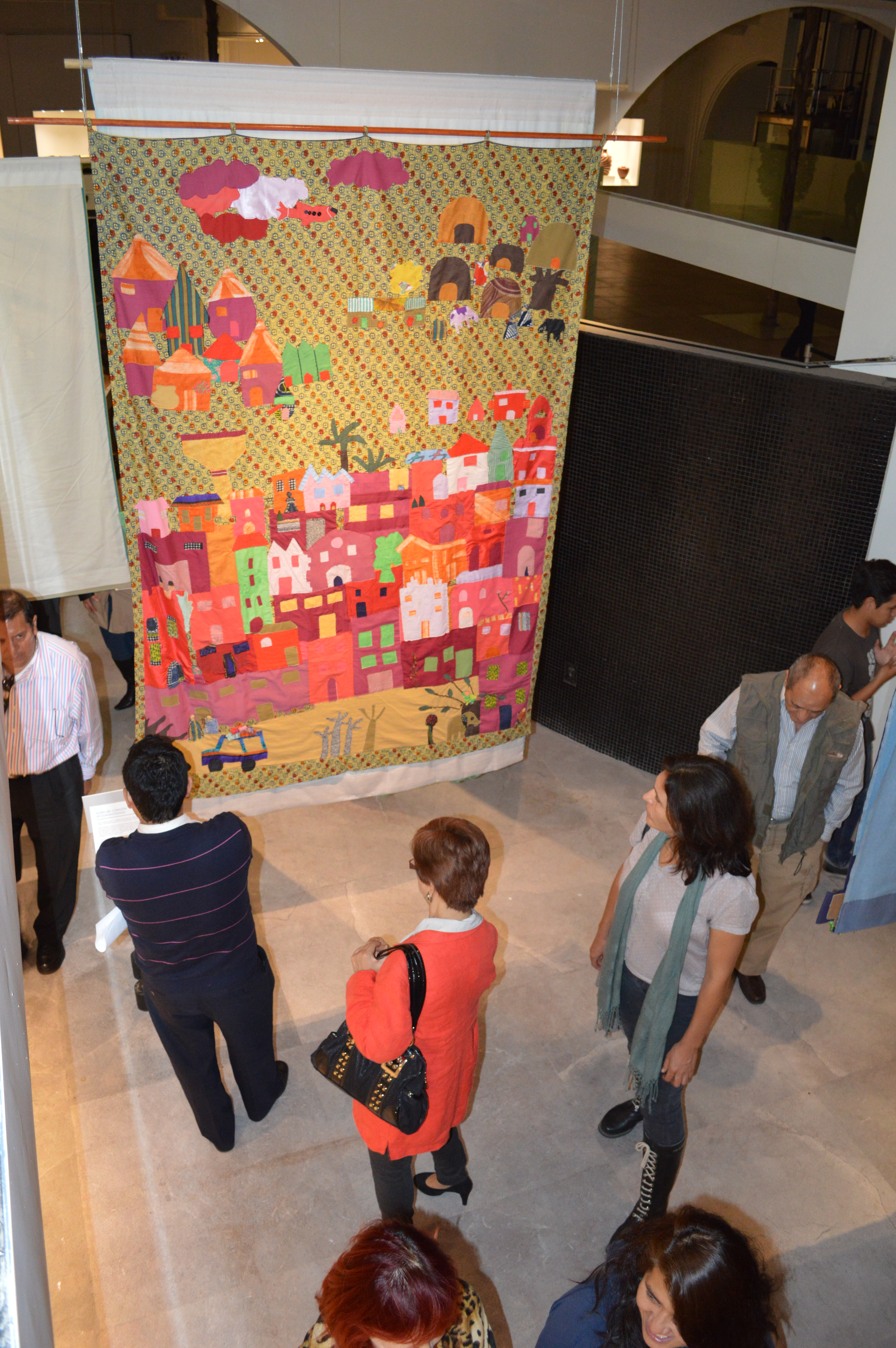 Opening of the Historias de Ciudades inspired by Katharina von Arx at the Museo de Arte Popular in Mexico City